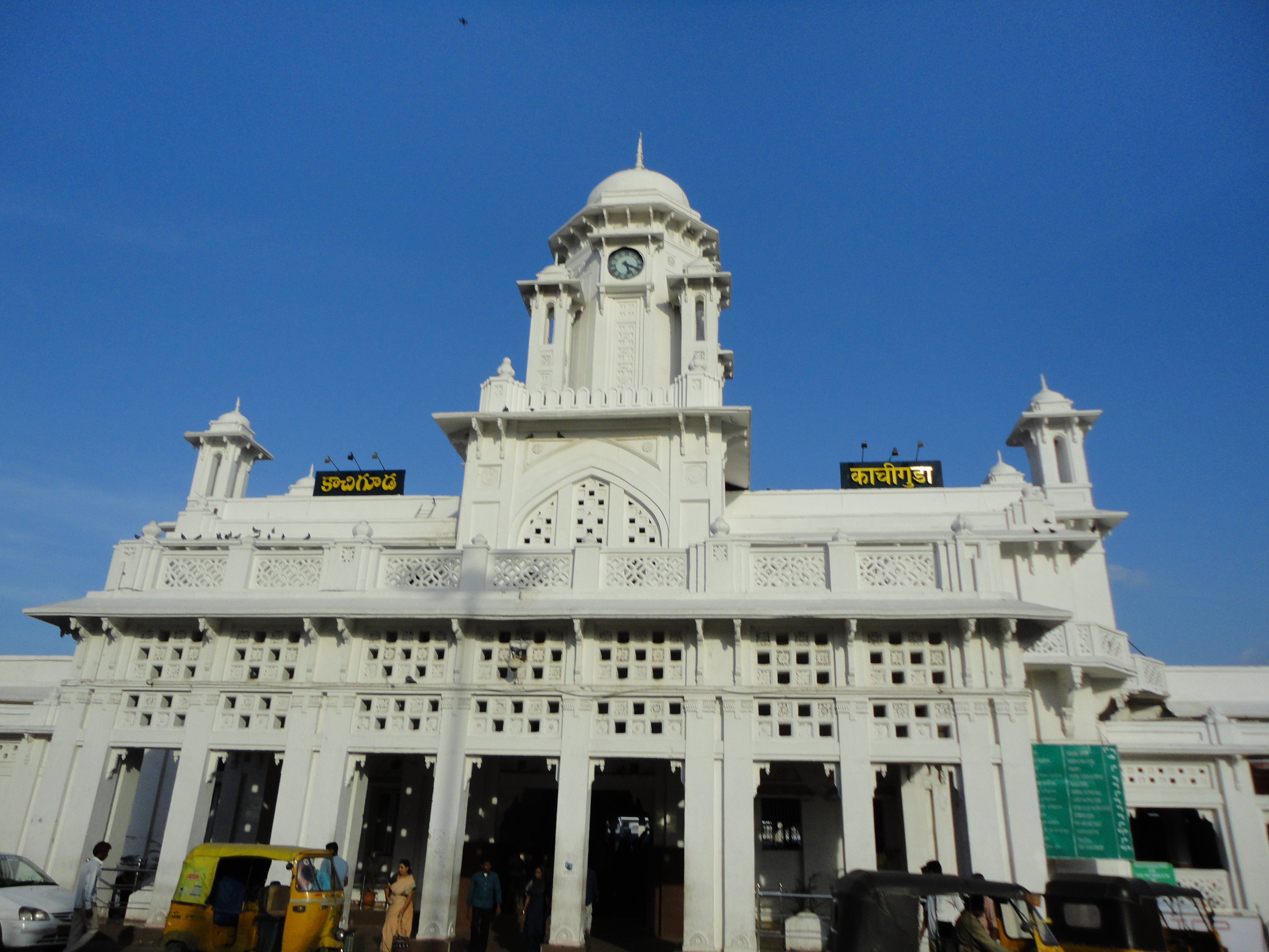 Kachiguda Railway Station